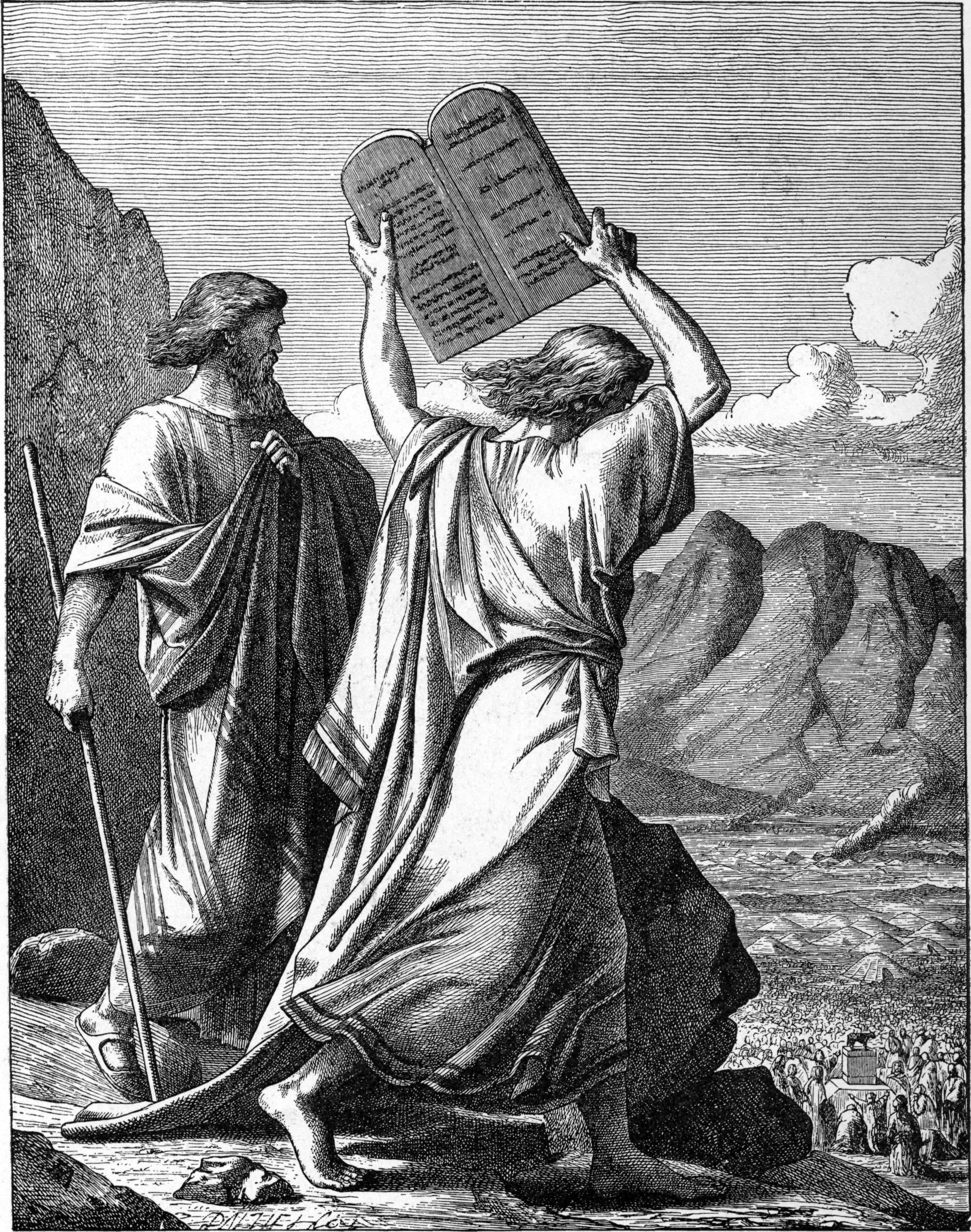 MOSES BREAKS THE TABLES OF THE LAW.—Exodus xxxii. 19.